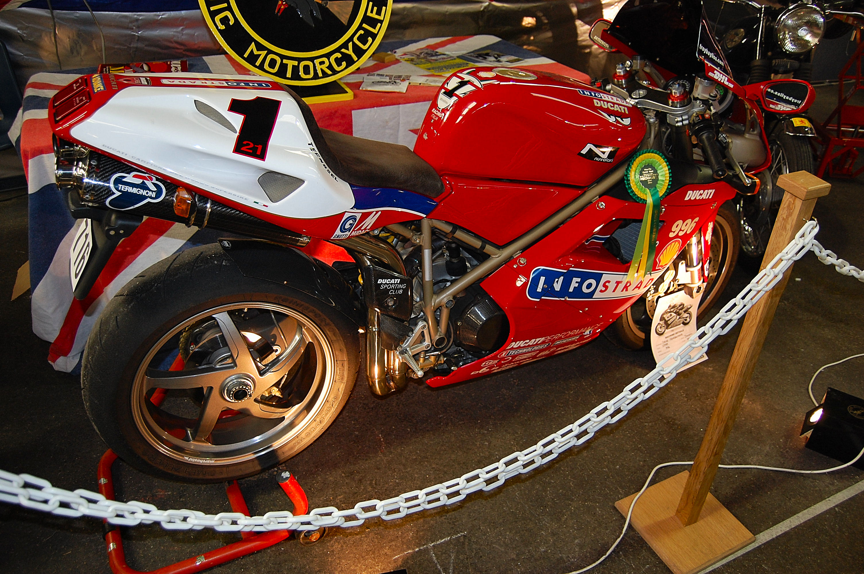 The Ducati 996 is an Italian street motorcycle manufactured by Ducati from 1999 to 2002. It was based upon the earlier 916. Manufacturer Ducati Production 1999-2002 Predecessor Ducati 916 Successor Ducati 998 Class Sport bike Engine 996 cc (61 cu in), L-twin, fuel injected 4 valve per cylinder desmodromic, liquid cooled Bore x stroke: 98 mm x 66 mm Compression Ratio: 11.5:1 Top speed 259 km/h (161 mph) Power 122 hp (82.3 kW) @ 8500 rpm Torque 93 Nm (9.5 kg-m) @ 8000 rpm Transmission 6 speed, chain drive Frame type Tubular steel trellis frame Suspension Front: Showa with TiN upside-down fork fully adjustable, 127 mm (5.0 in)wheel travel Rear: Öhlins progressive cantilever linkage with adjustable monoshock, 130 mm (5.1 in) wheel travel Brakes Front: 2 x 320 mm discs, 4 piston calipers Rear: Single 220 mm disc, 2 piston caliper Tires Front: 120/70 ZR17 Rear: 190/50 ZR17 Wheelbase 1,410 mm (55.5 in) Dimensions L 2,010 mm (79.1 in) W 690 mm (27.2 in) H 1,090 mm (42.9 in) Seat height 790 mm (31.1 in) Weight 198 kg (437 lb) (dry) Fuel capacity 17 litres (4.5 US gal) (4 litres (1.1 US gal) reserve)